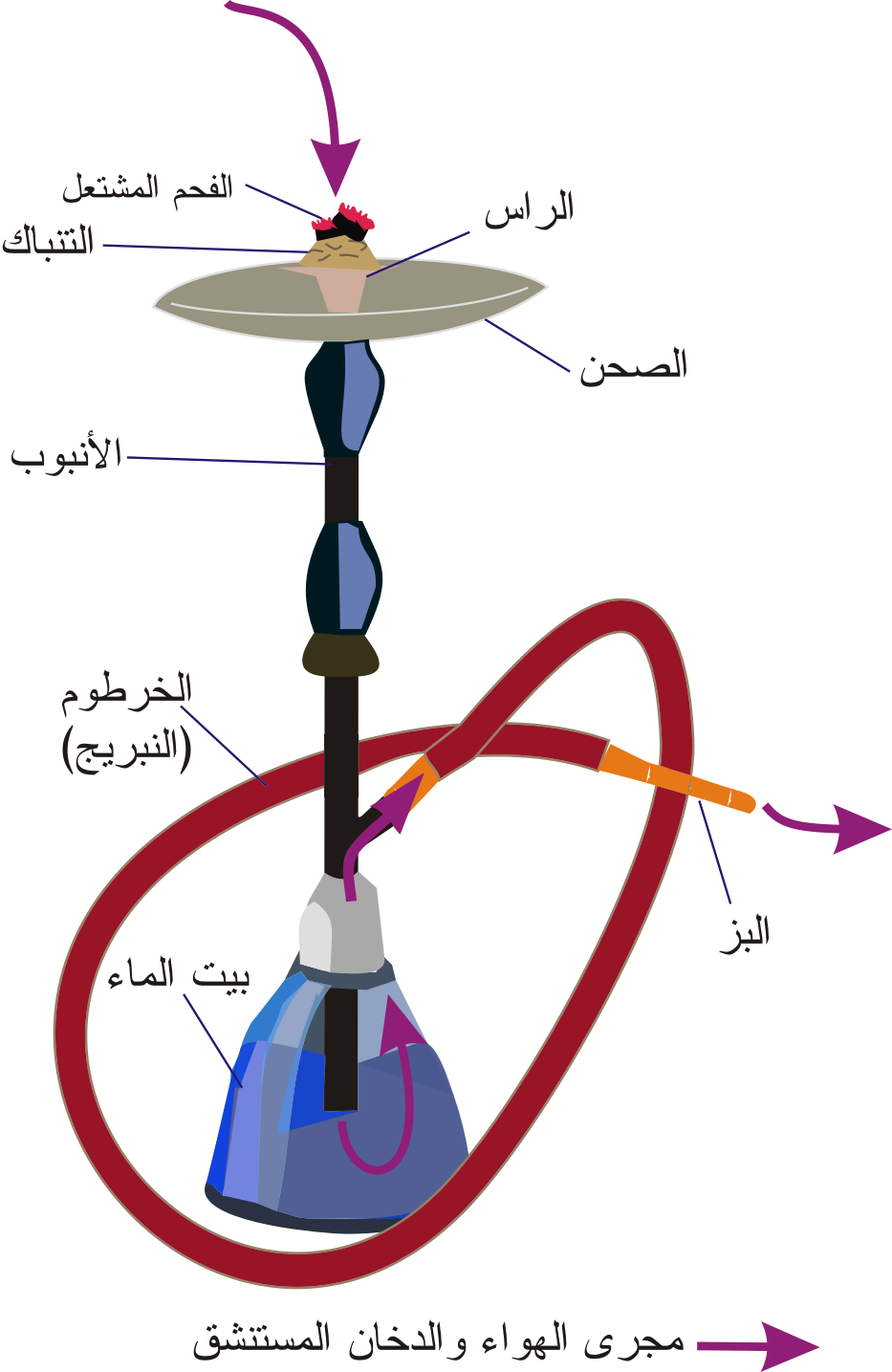 The work of the water pipe